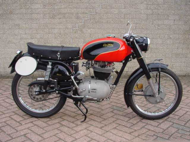 Parilla Sport Lusso Corsa 175 cc 1955.